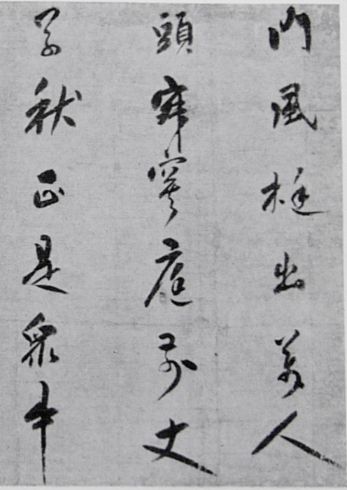 Calligrahy by Priest JAKUSHITSU GENKO, in The Museum Yamato Bunkakan, Nara, Japan